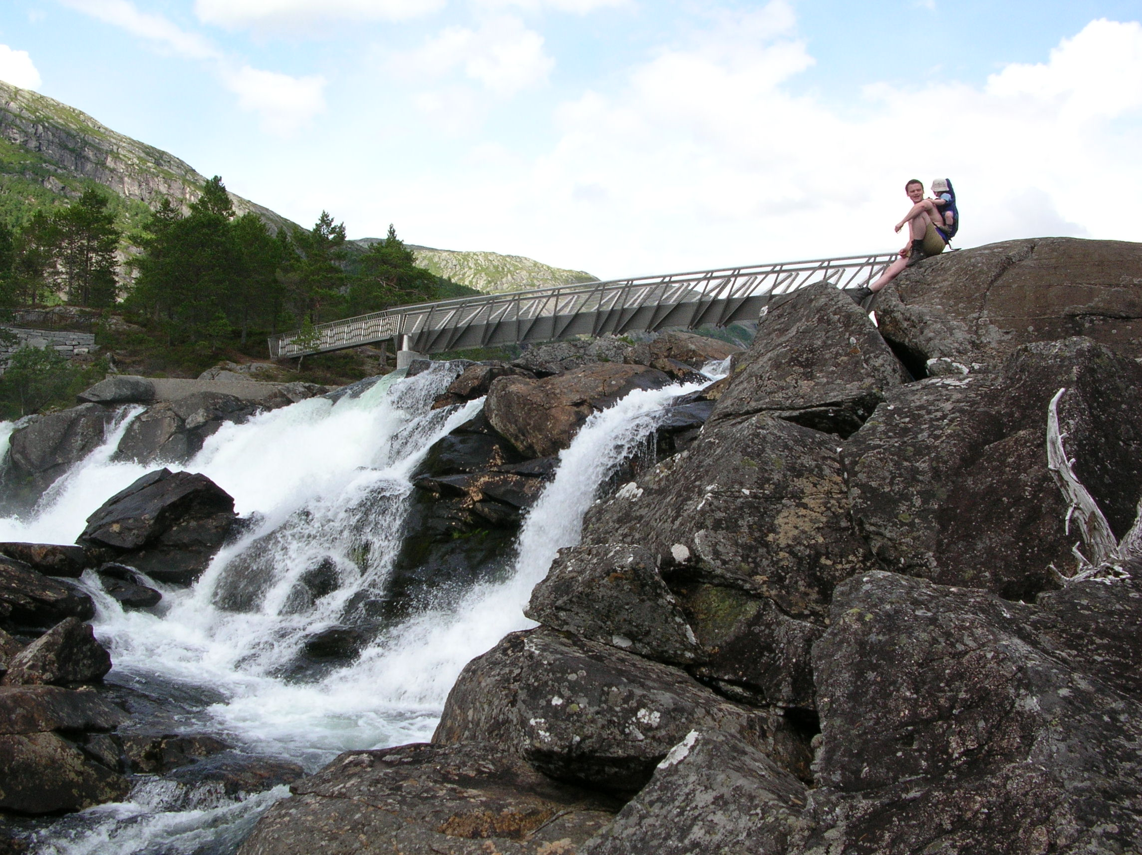 The waterfall Likholefossen in Gaularmunicipality, Sogn og Fjordane county